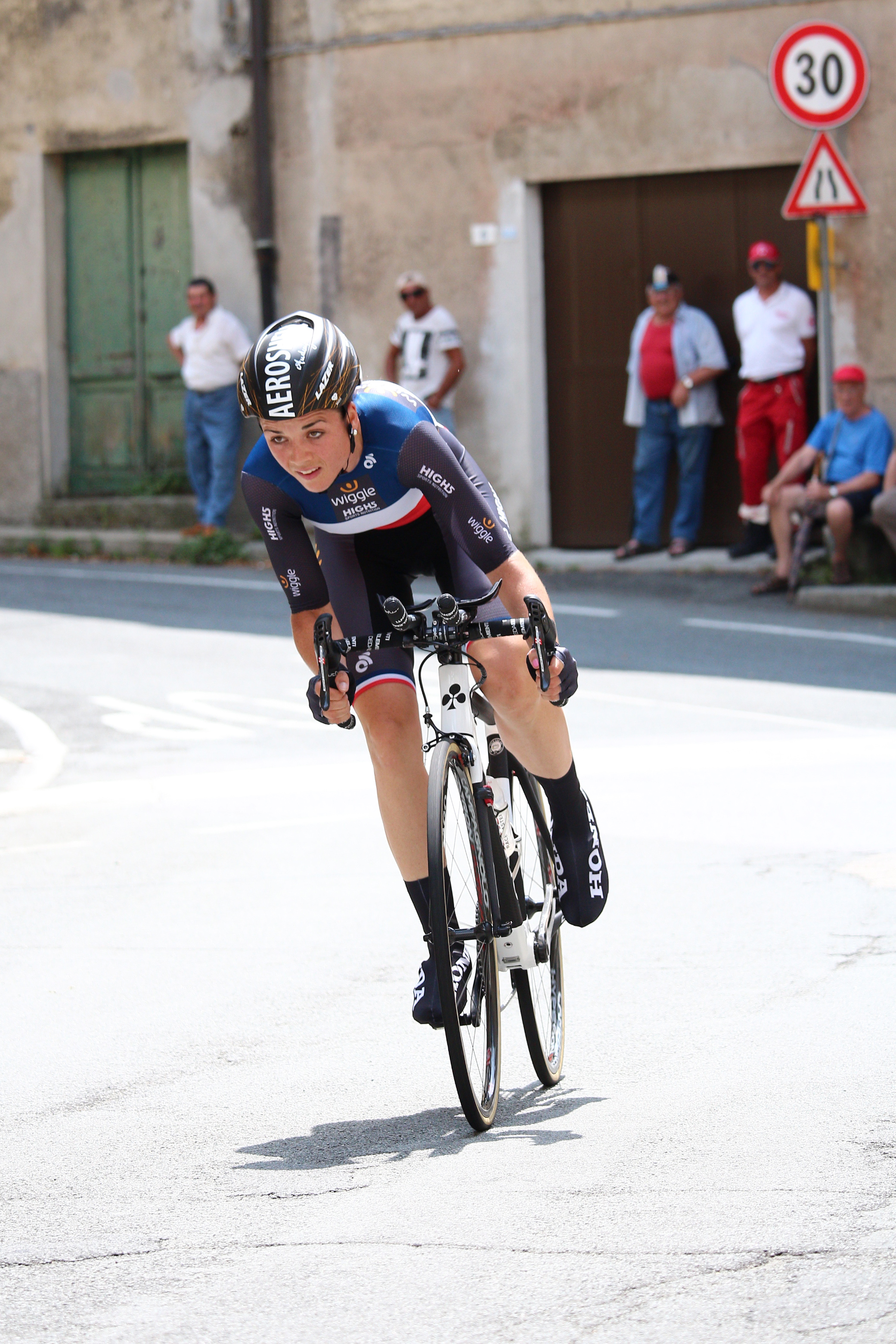 Audrey Cordon during the 7th stage of Giro Rosa 2016 in Stella San Martino